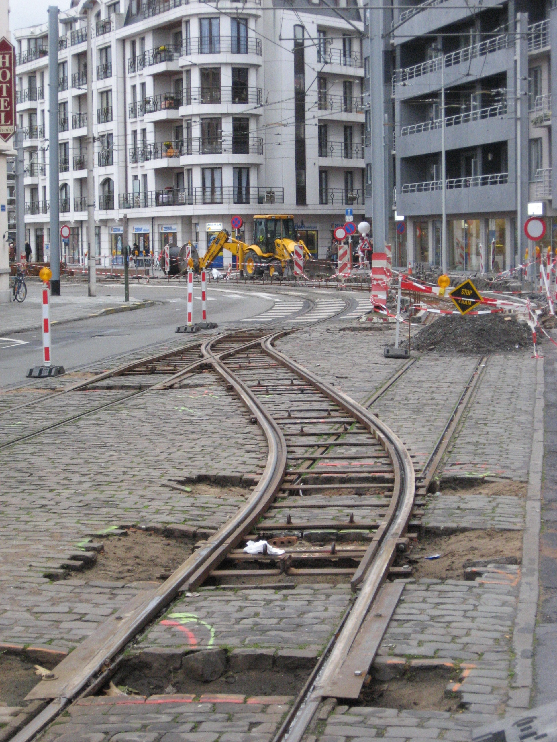 Temporary switch point to enable railworks to take place. There is only one point, on the other side the vehicle is lifted above the normal tracks. (closest side). Is configured for right hand running.